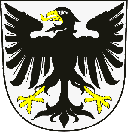 Coat of arms of Panenský týnec market town near Louny town, Czech Republic.